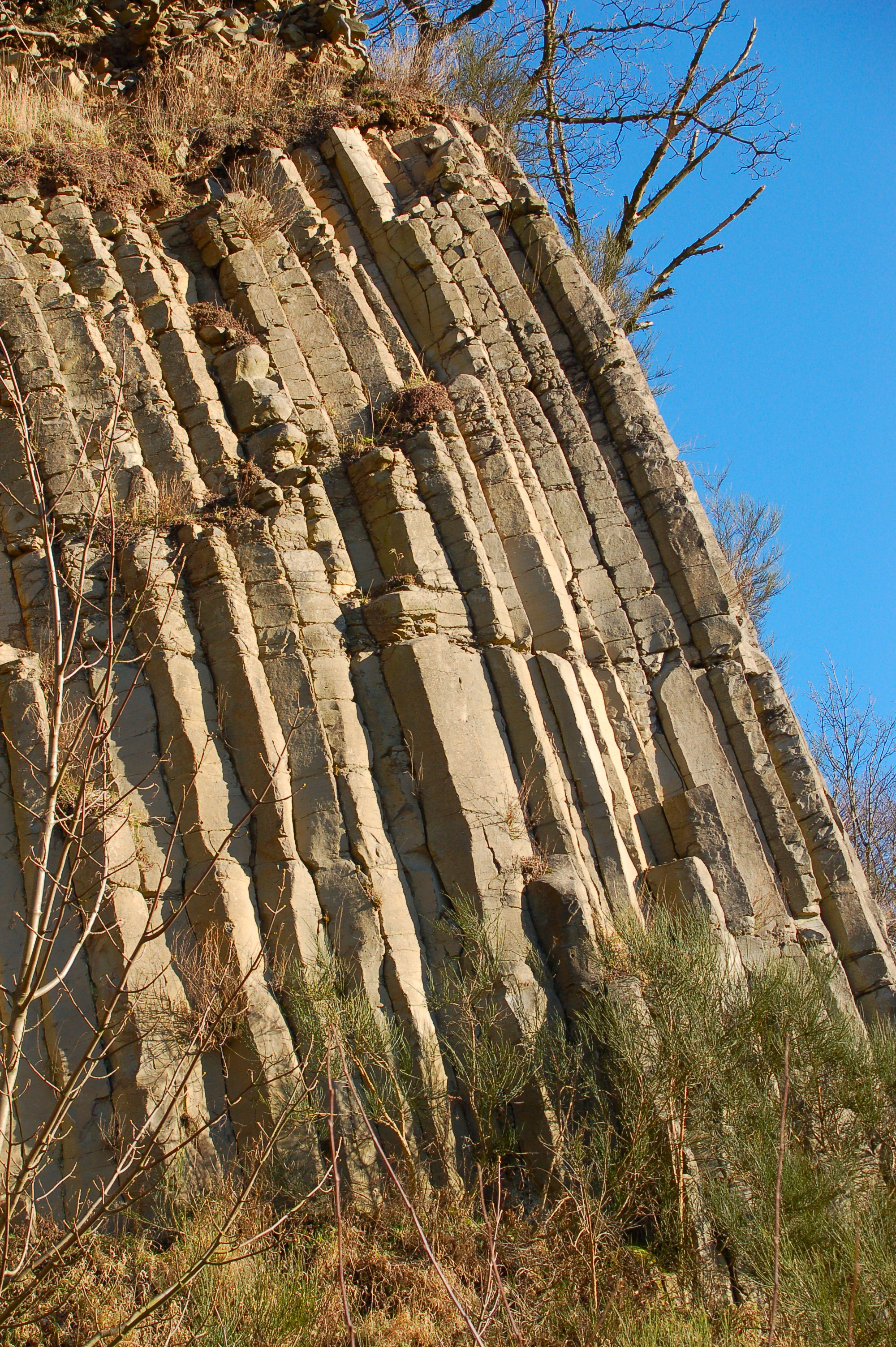 Hummelsberg, basalt columns